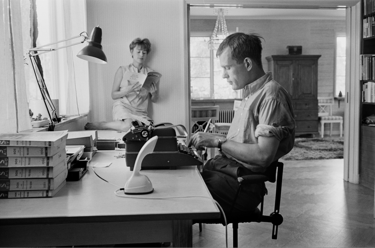 Photograph of the Swedish actor Harriet Andersson and the Finnish writer/director Jörn Donner, presumably in Stockholm. (There is a 1964 telephone book of Stockholm area on the table.)